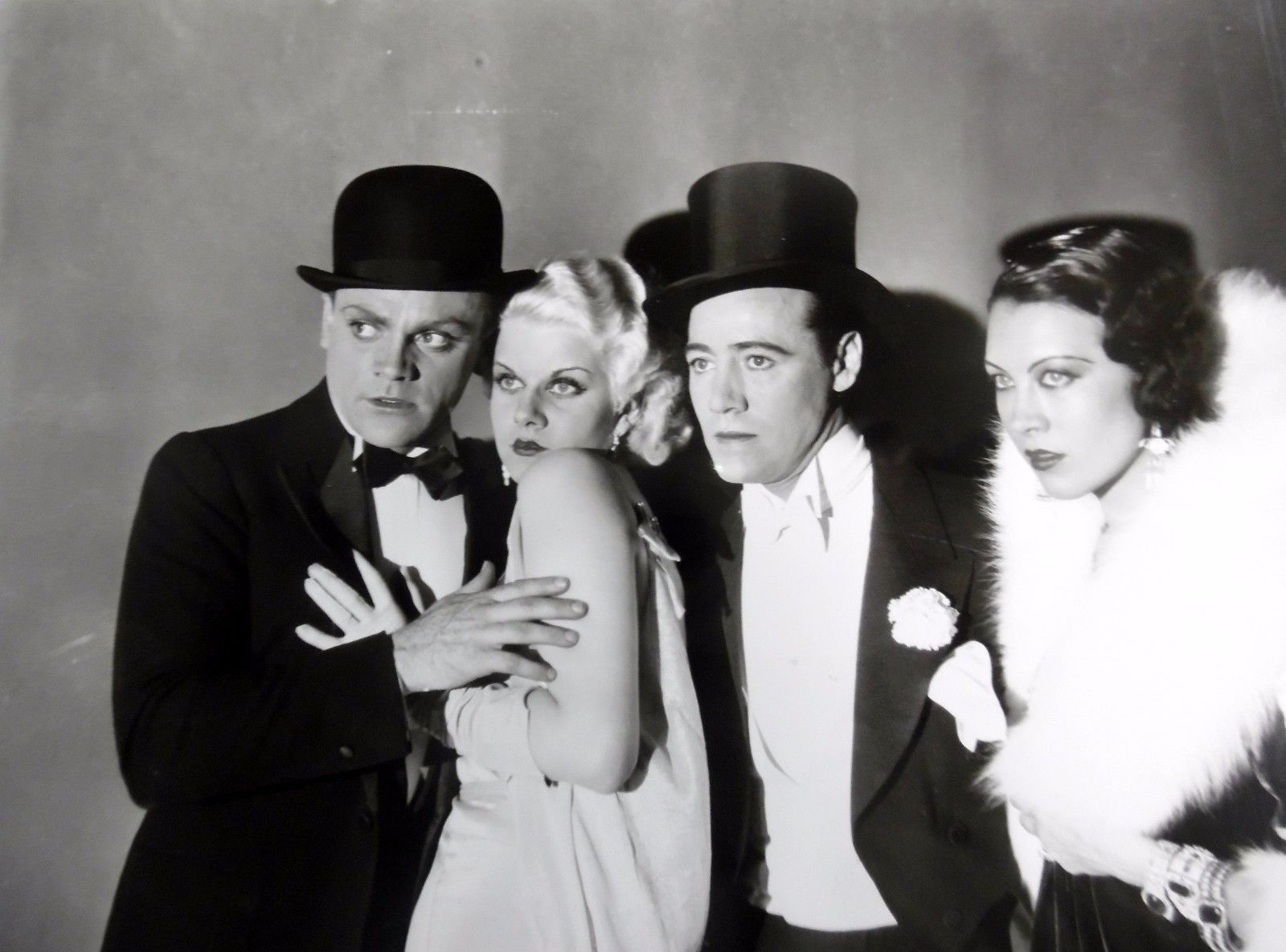 James Cagney and Jean Harlow publicity photo for the film The Public Enemy (1931)